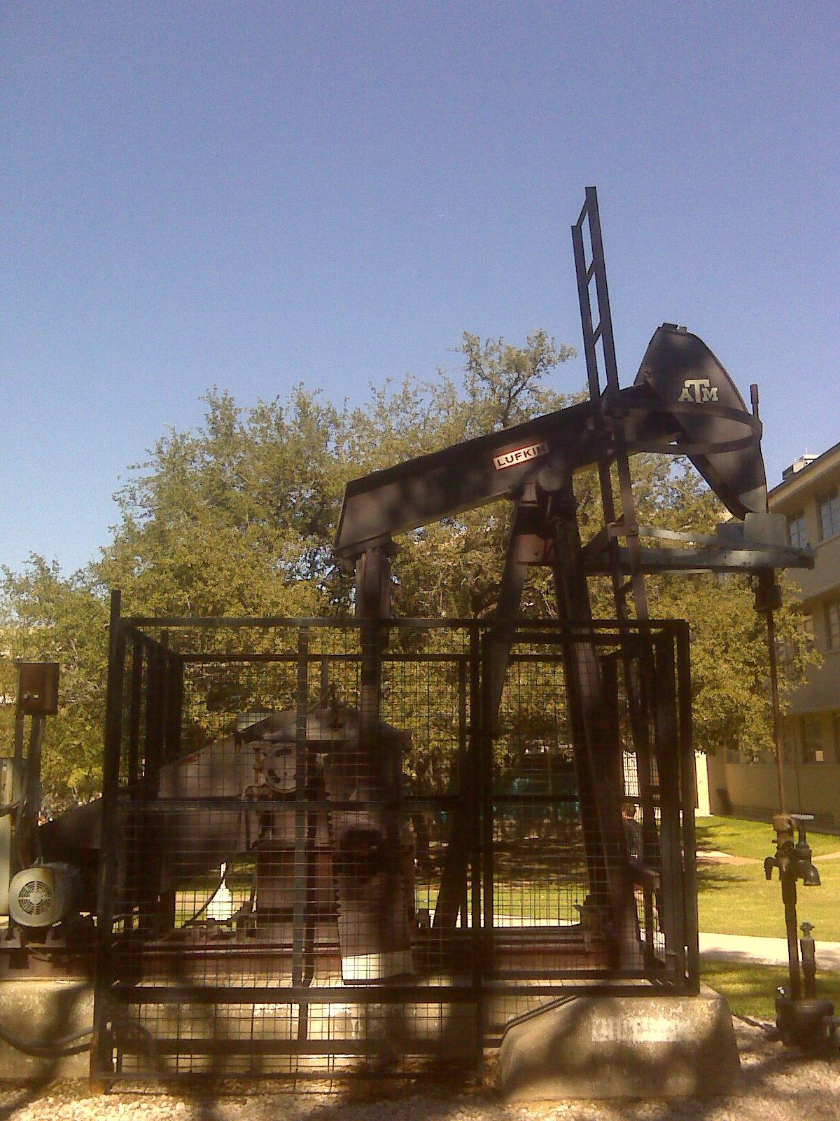 Experimental pumpjack near the Geo Department of Texas A&M University, College Station TX